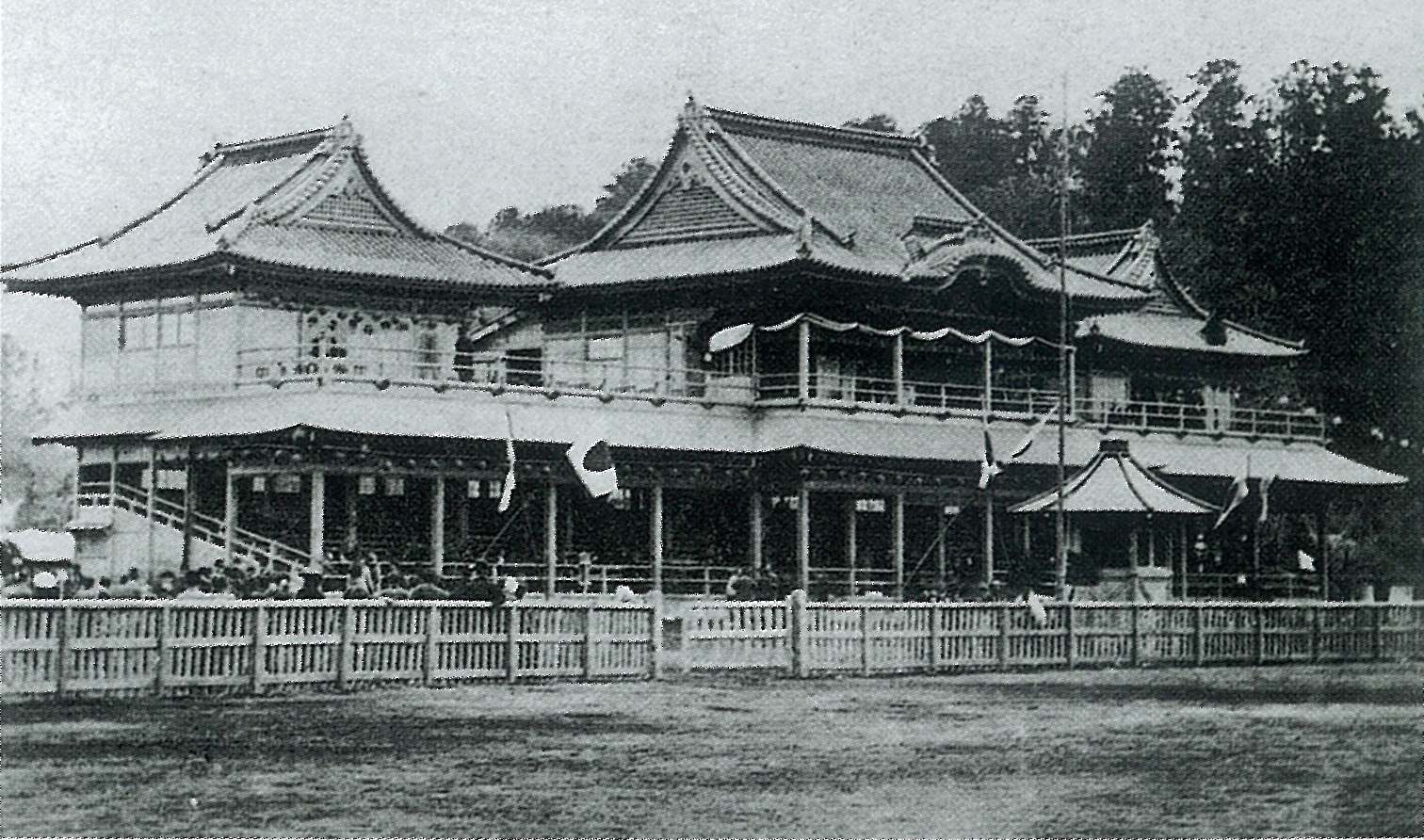 Photograph of the grandstand of the racetrack that was by Shinobazu Pond, Tokyo